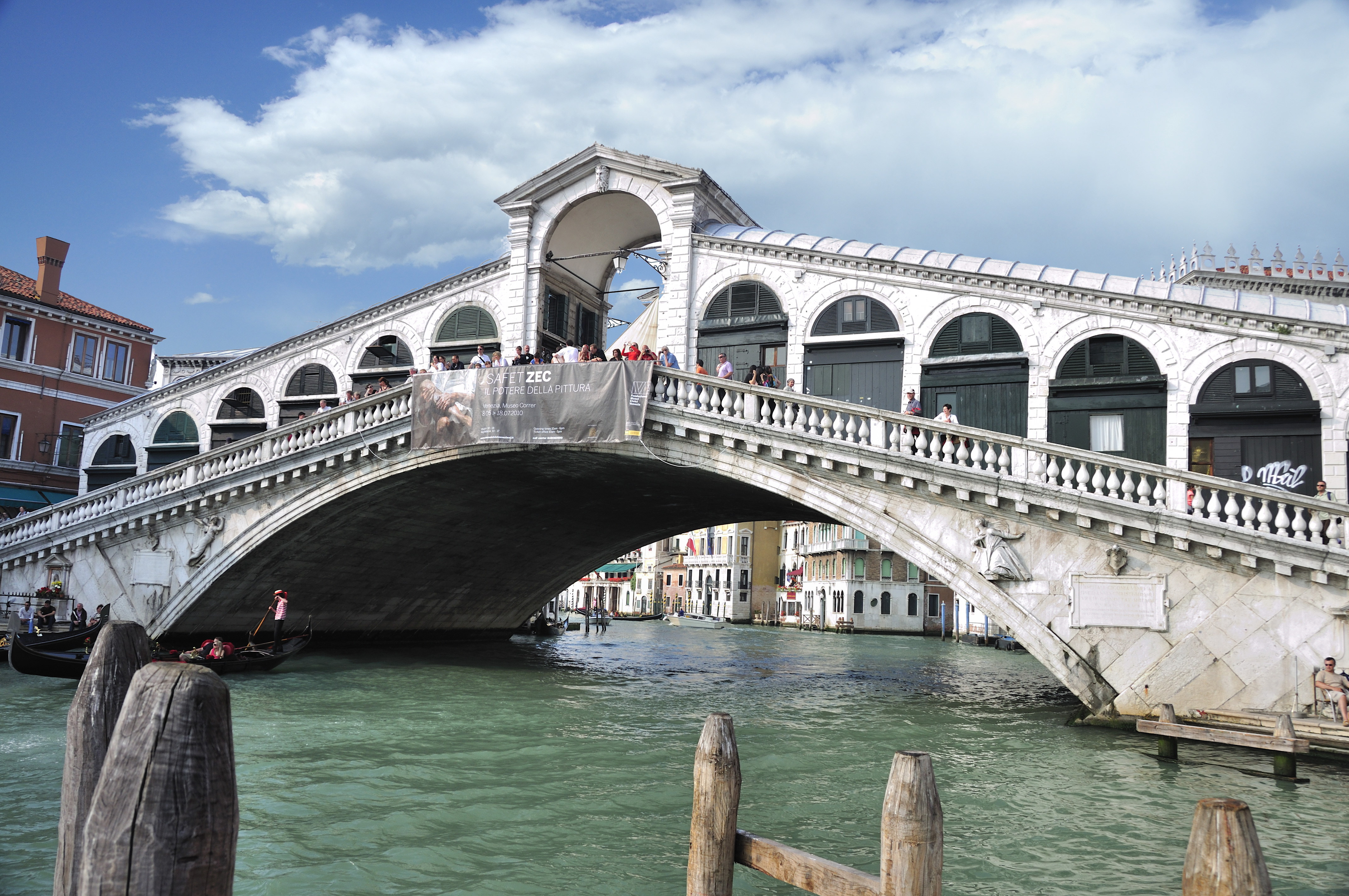 The water streets of Venice are canals which are navigated by gondolas and other small boats. During daylight hours the canals, bridges, and streets of Venice are full of tourists eager to experience the romance of this great travel destination. As night engulfs the town, tourists enjoy some fine dining at one of the many restaurants, leaving the waterways and streets quiet. The gondola is a traditional, flat-bottomed Venetian rowing boat, well suited to the conditions of the Venetian Lagoon. For centuries gondolas were once the chief means of transportation and most common watercraft within Venice. In modern times the iconic boats still have a role in public transport in the city, serving as ferries over the Grand Canal. They are also used in special regattas (rowing races) held amongst gondoliers. Their main role, however, is to carry tourists on rides throughout the canals. Gondolas are hand made using 8 different types of wood (fir, oak, cherry, walnut, elm, mahogany, larch and lime) and are composed of 280 pieces. The oars are made of beech wood. The left side of the gondola is longer than the right side. This asymmetry causes the gondola to resist the tendency to turn toward the left at the forward stroke.